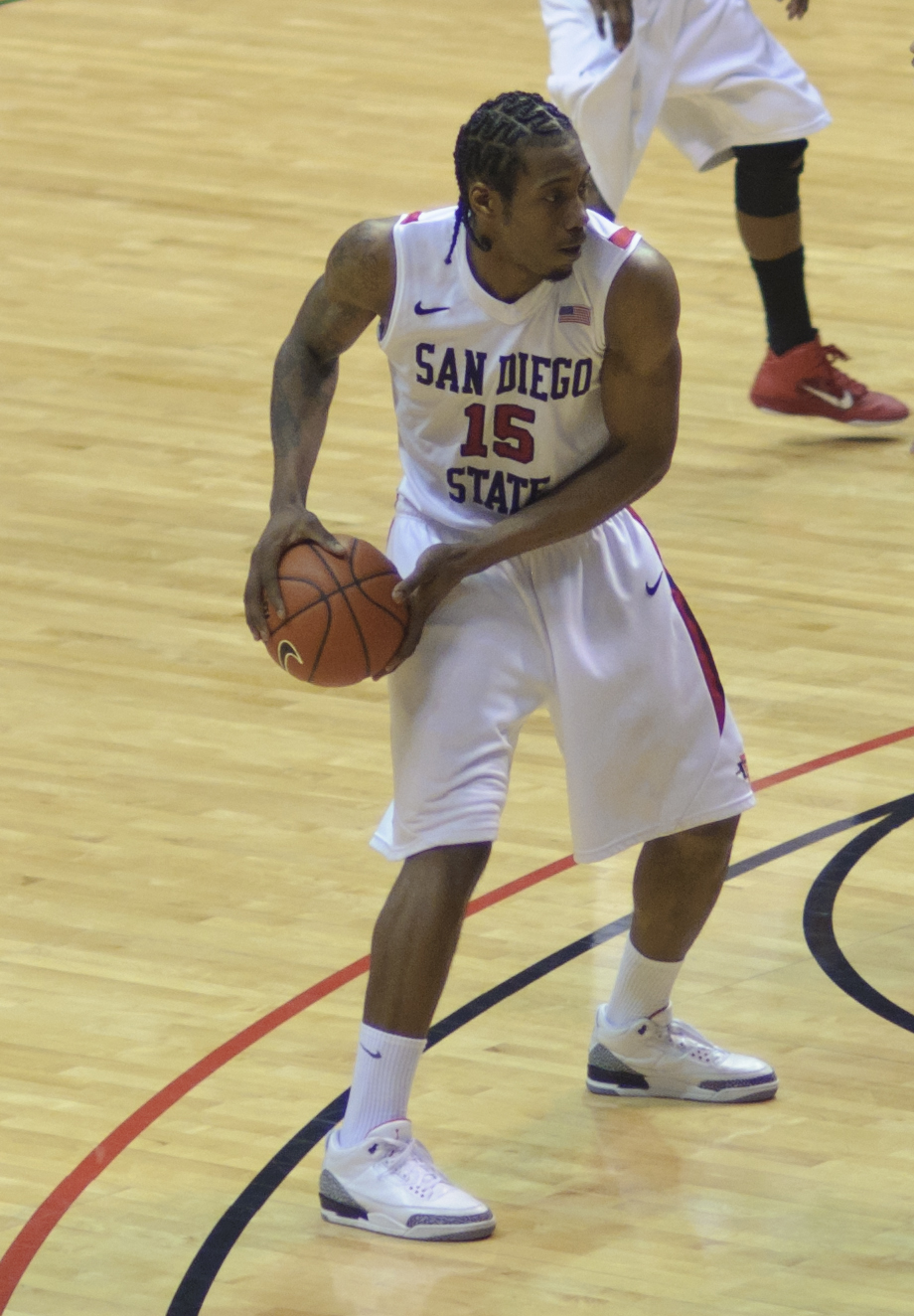 Kawhi Leonard playing for San Diego State Aztecs.